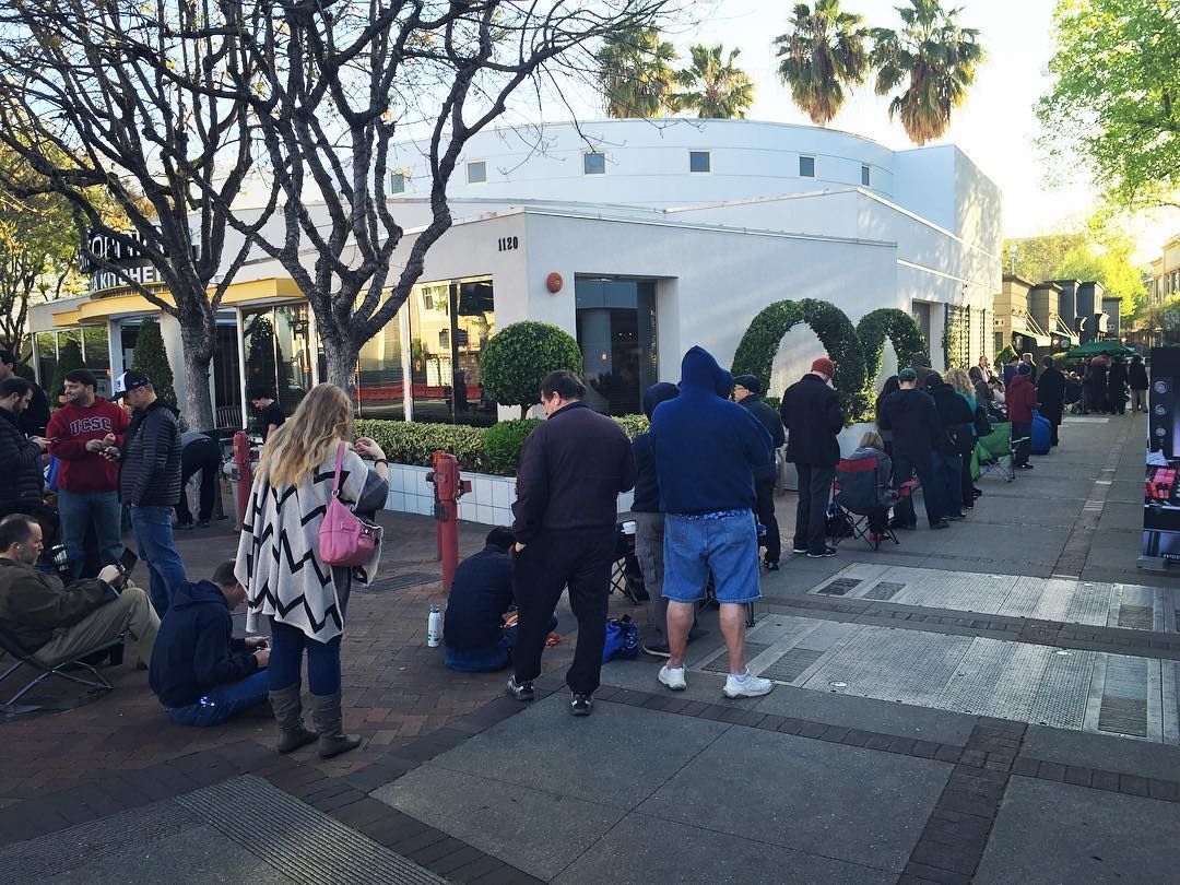 About 125 people in line for Tesla Model 3 pre-orders in Walnut Creek (8:15 am)